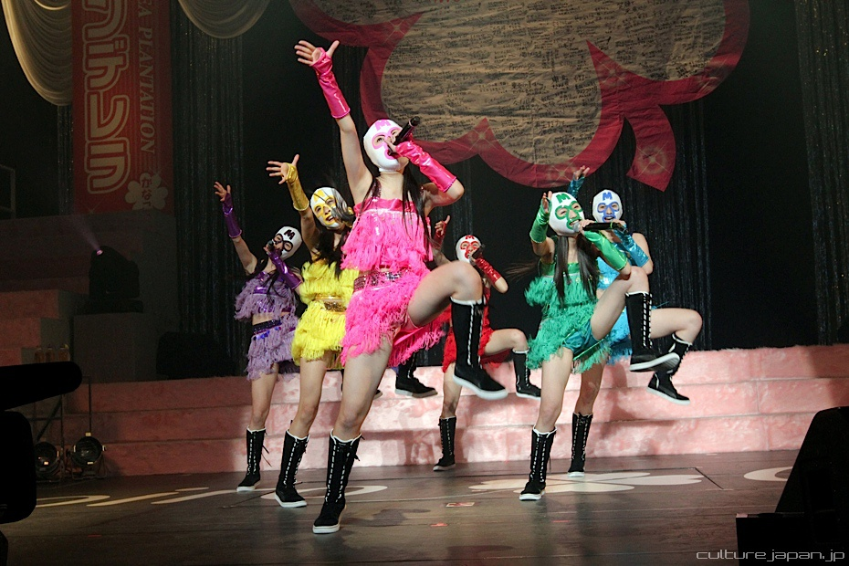 Momoiro Clover Z By Danny Choo